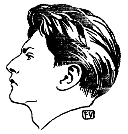 Portrait of French painter Léon Pourtau (1872-1898) by Félix Valloton (1865-1925)